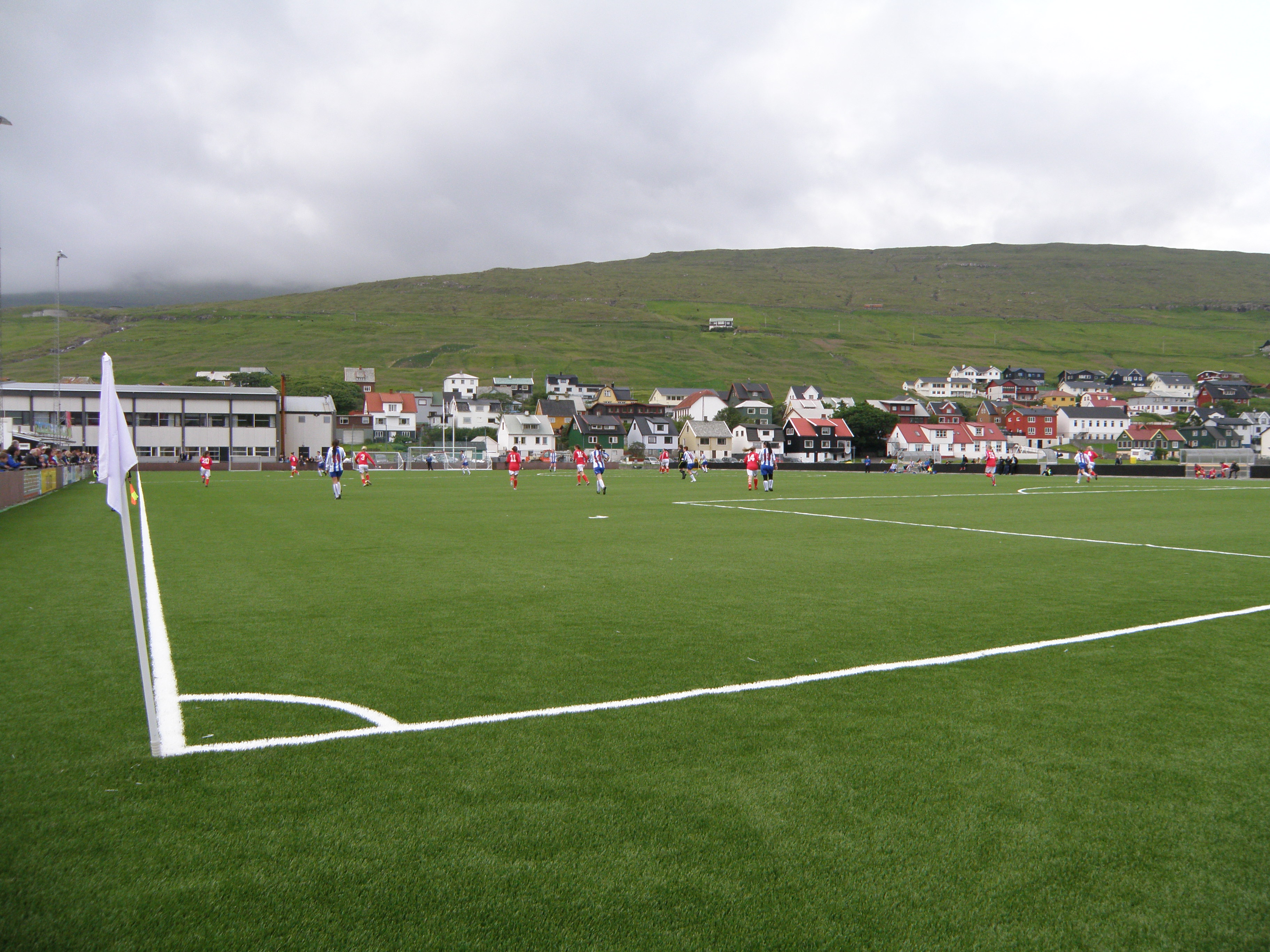 This is the football field of MB Miðvágur. They no longer play in the best divisions, they currently play in the men's third division (3. deild). MB is short for Miðvágs Bóltfelag. This photo was taken at the Vestanstevna festival in July 2011. There was a football match for women or girls at that moment. Føroyskt: Fótbóltsvøllurin í Miðvági hjá MB (Miðvágs Bóltfelag). Myndin varð tikin leygardagin á Vestanstevnu í 2011, eftir kappróðurin. Tvey kvinnulið ella gentulið spældu.